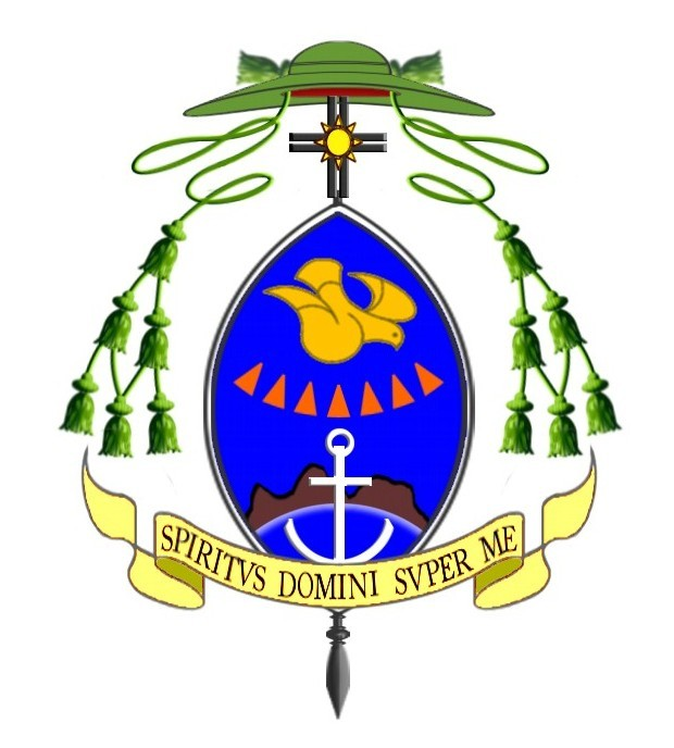 Brasão de Dom Germano Grachana, Bispo de Nacala.